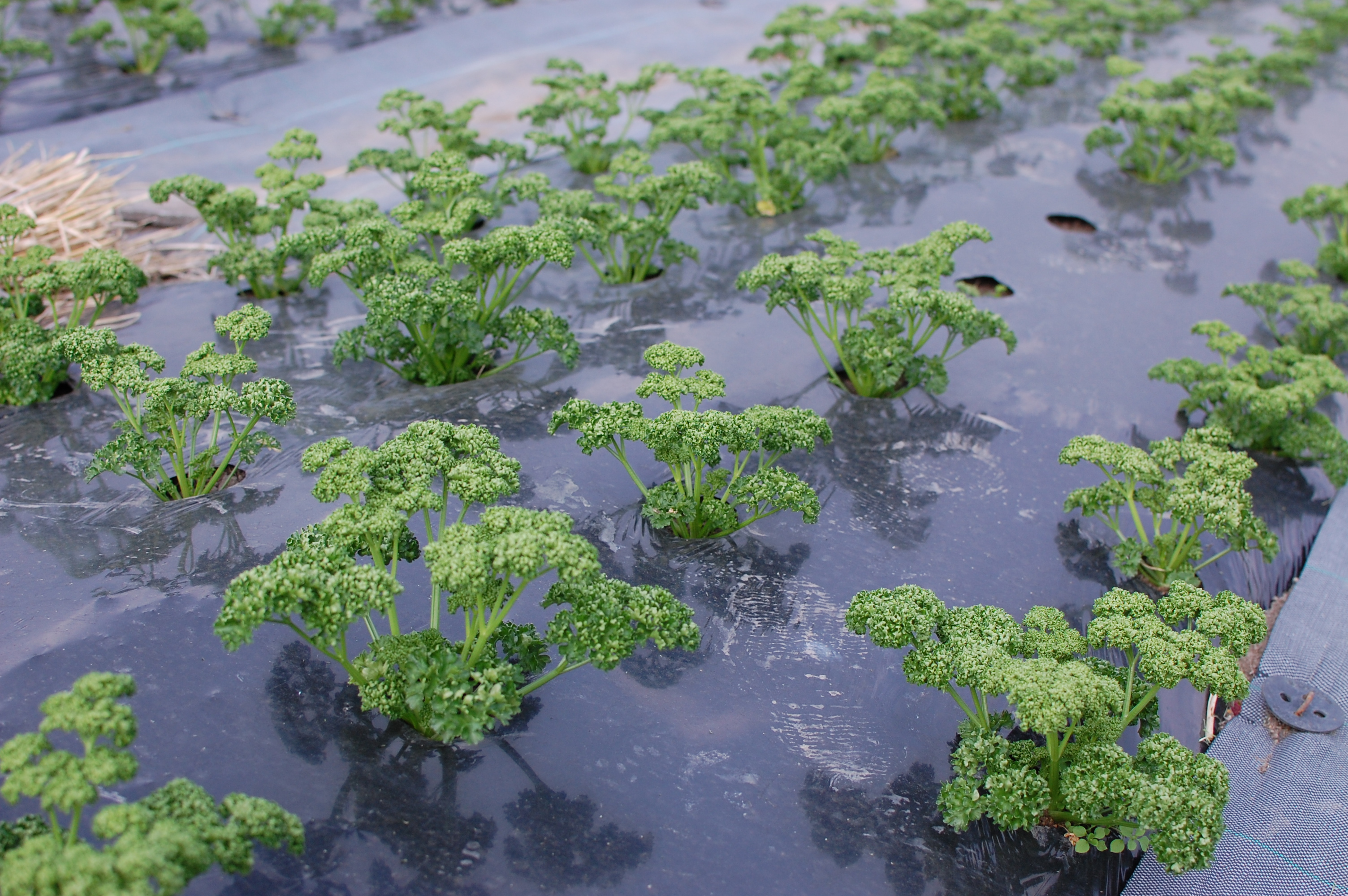 Parsly, Petroselinum crispum